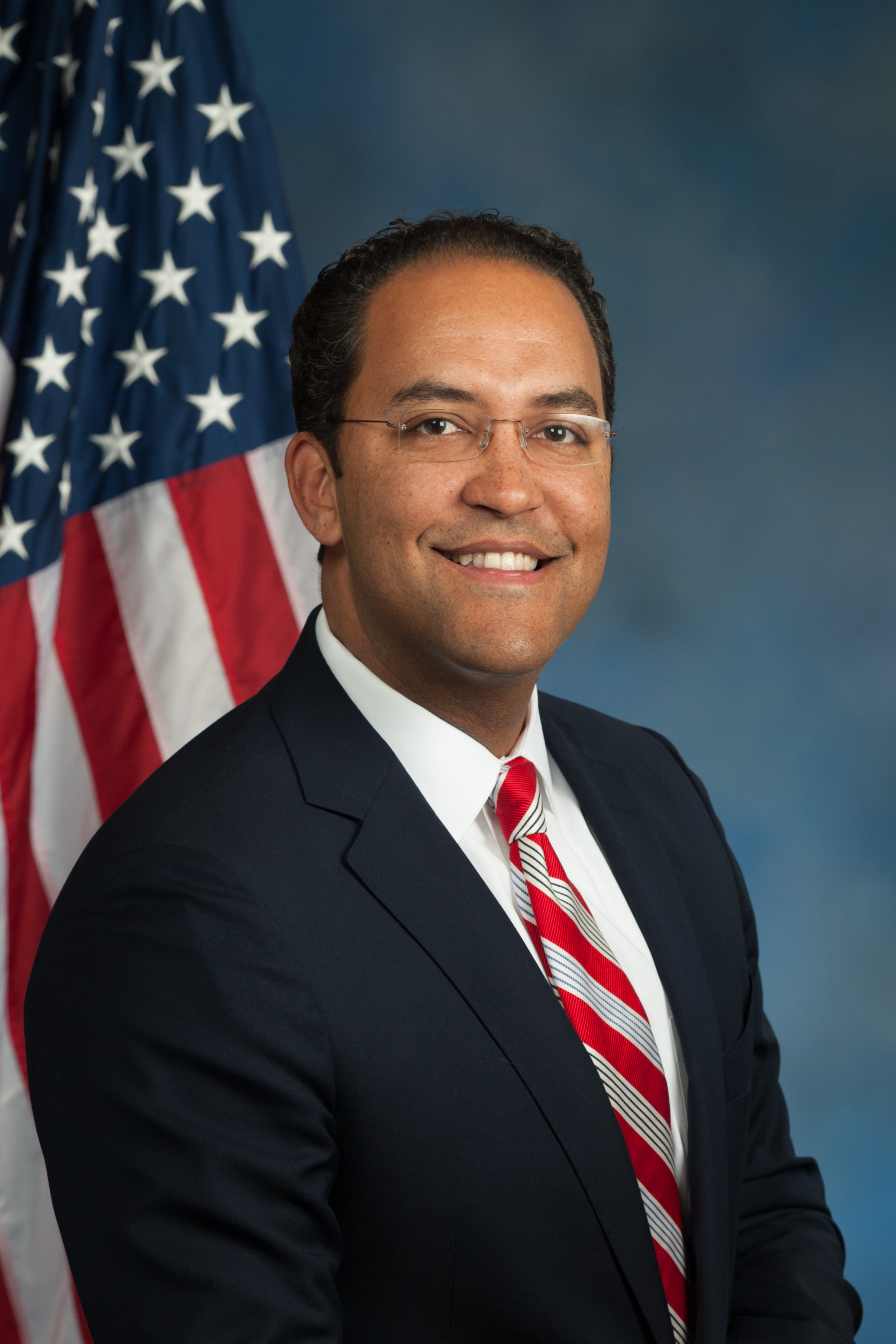 Official US House photo